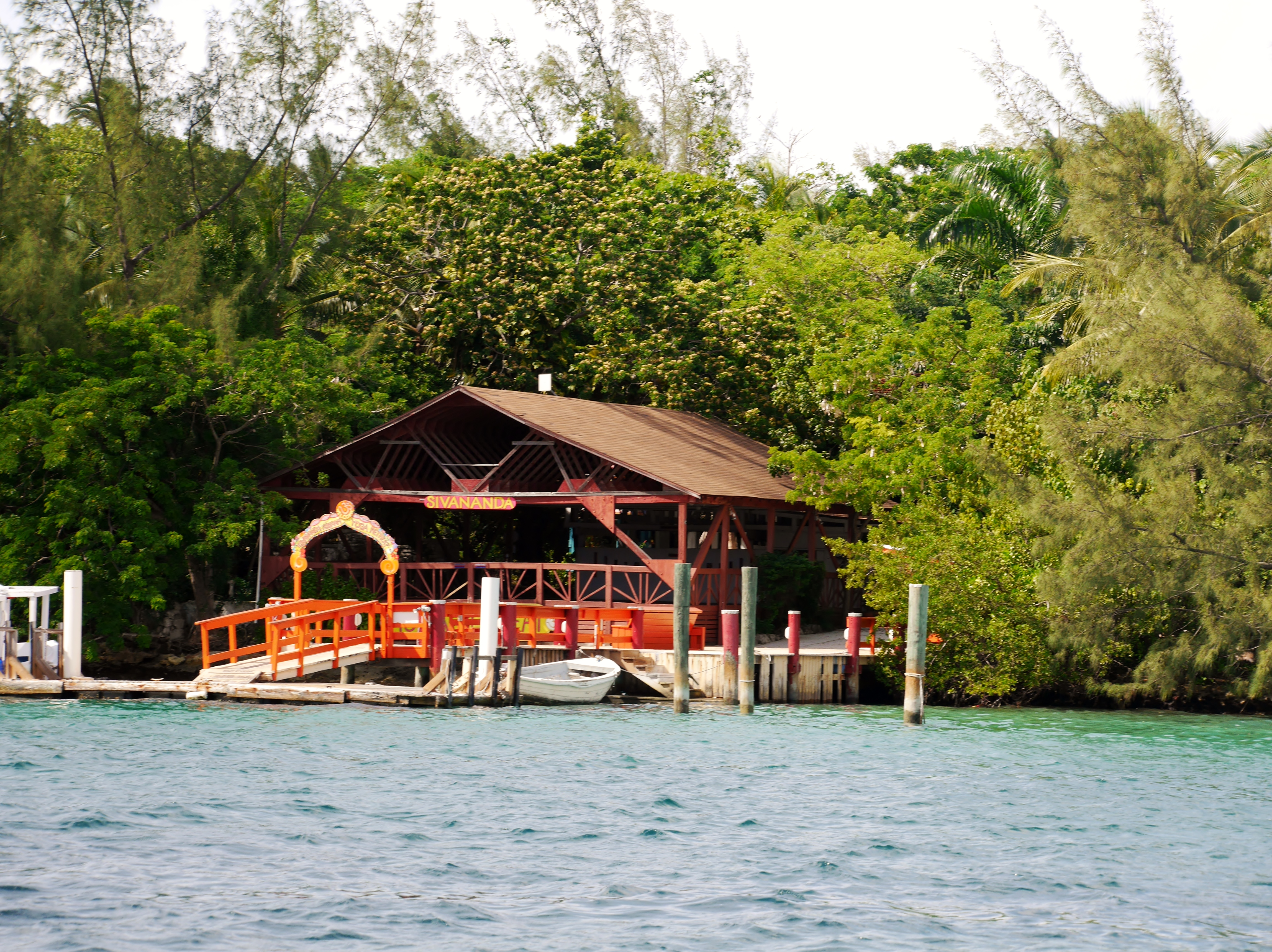 Paradise Island, Sivananda Ashram Yoga Retreat